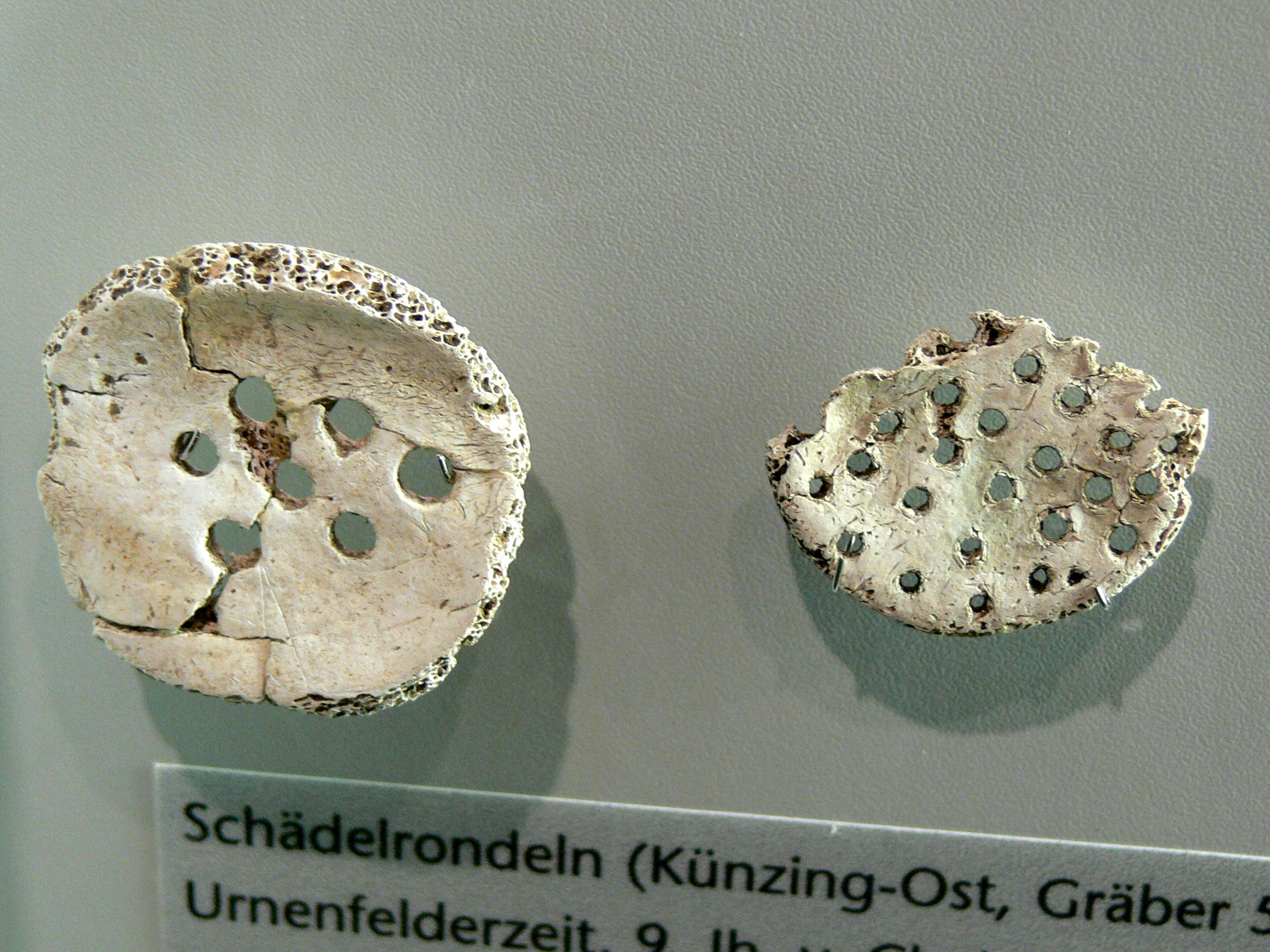 Museum Quintana. Urnfield culture ( 9th century BC ): Amuletts created of round fragments of human skull made by trepanation.